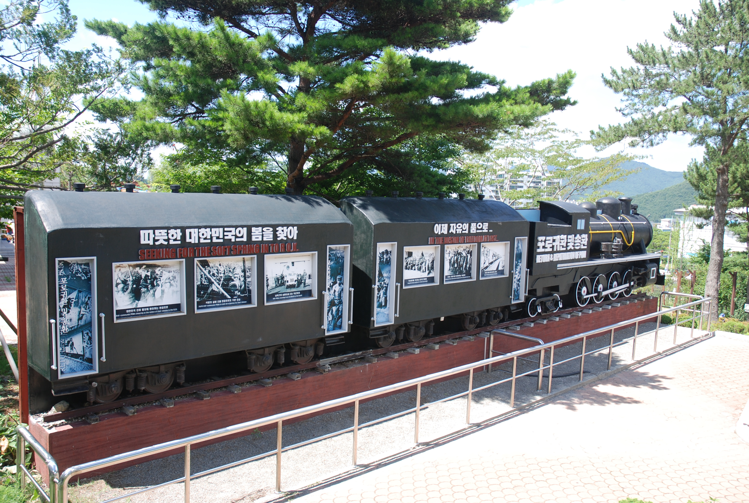 Geoje POW Camp Repatriation Train